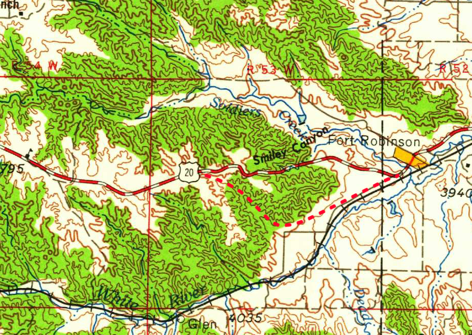 This is a portion of a 1958 USGS Topographic map of the Alliance, Nebraska area showing the historical routing of US 20 through Smiley Canyon with modifications showing the present day alignment as a dashed red line